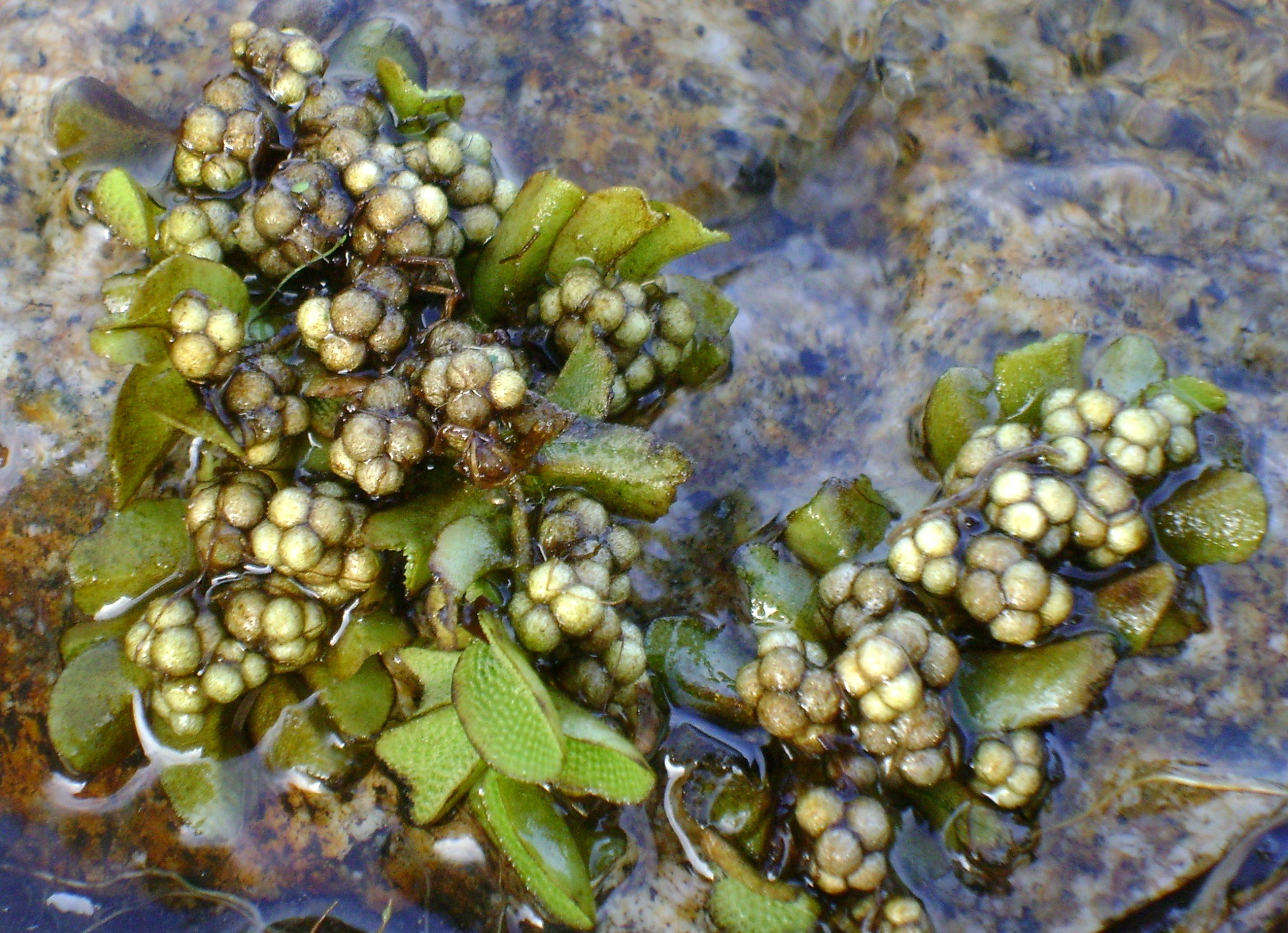 Salvinia natans, sporocarps